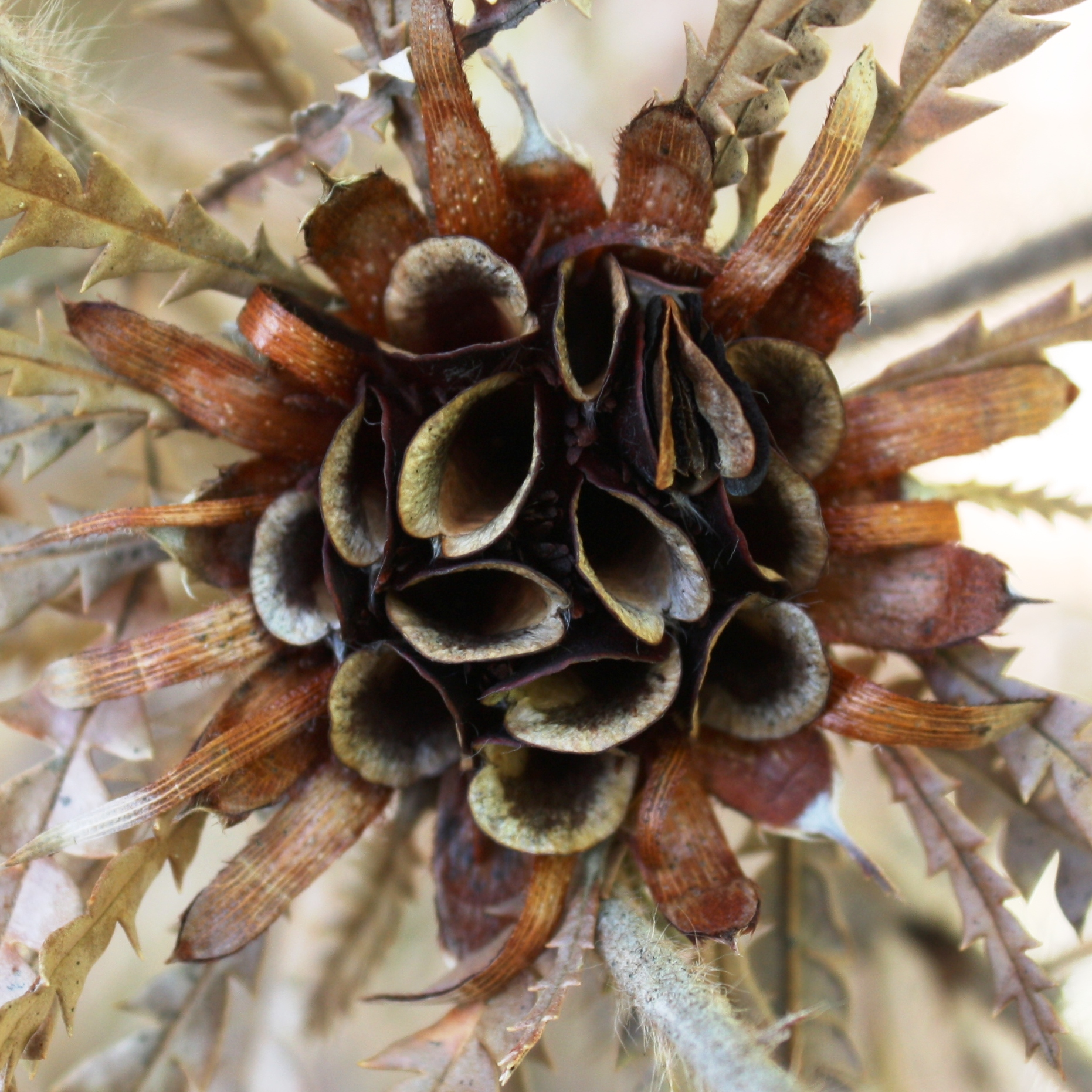 A old fruiting head of Banksia formosa, with open follicles. Photo taken near the Donnelly River just upstream from the One Tree Bridge. This is somewhat outside the recorded distribution of this species.